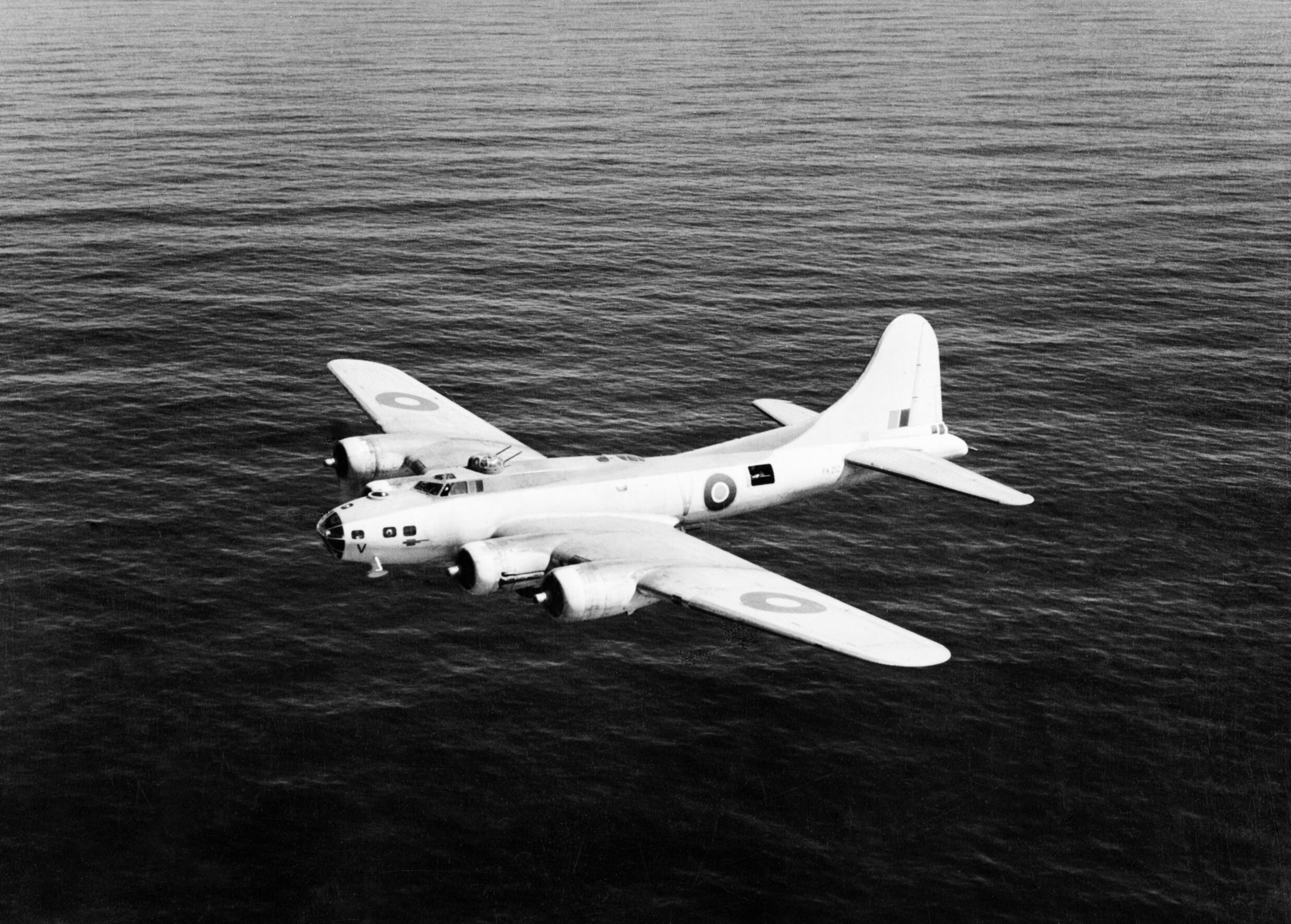 Boeing Fortress Mk IIA of No. 220 Squadron RAF based at Benbecula in the Outer Hebrides, in flight over the Atlantic Ocean, May 1943. Fortress Mark IIA, FK212 ‘V’, of No. 220 Squadron RAF based at Benbecula in the Outer Hebrides, in flight over the Atlantic Ocean. FK212 failed to return from a patrol on 14 June 1943.